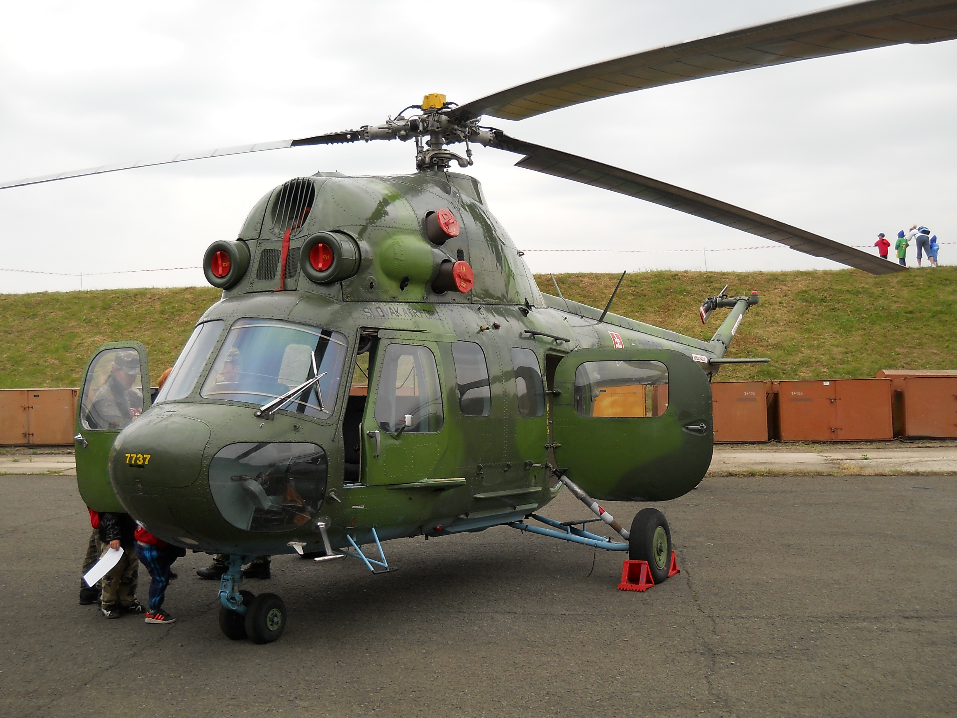 Mil Mi-2 light helicopter of Slovak Air Force, during annual day of open days on Prešov airbase in Slovakia. 1.6.2012